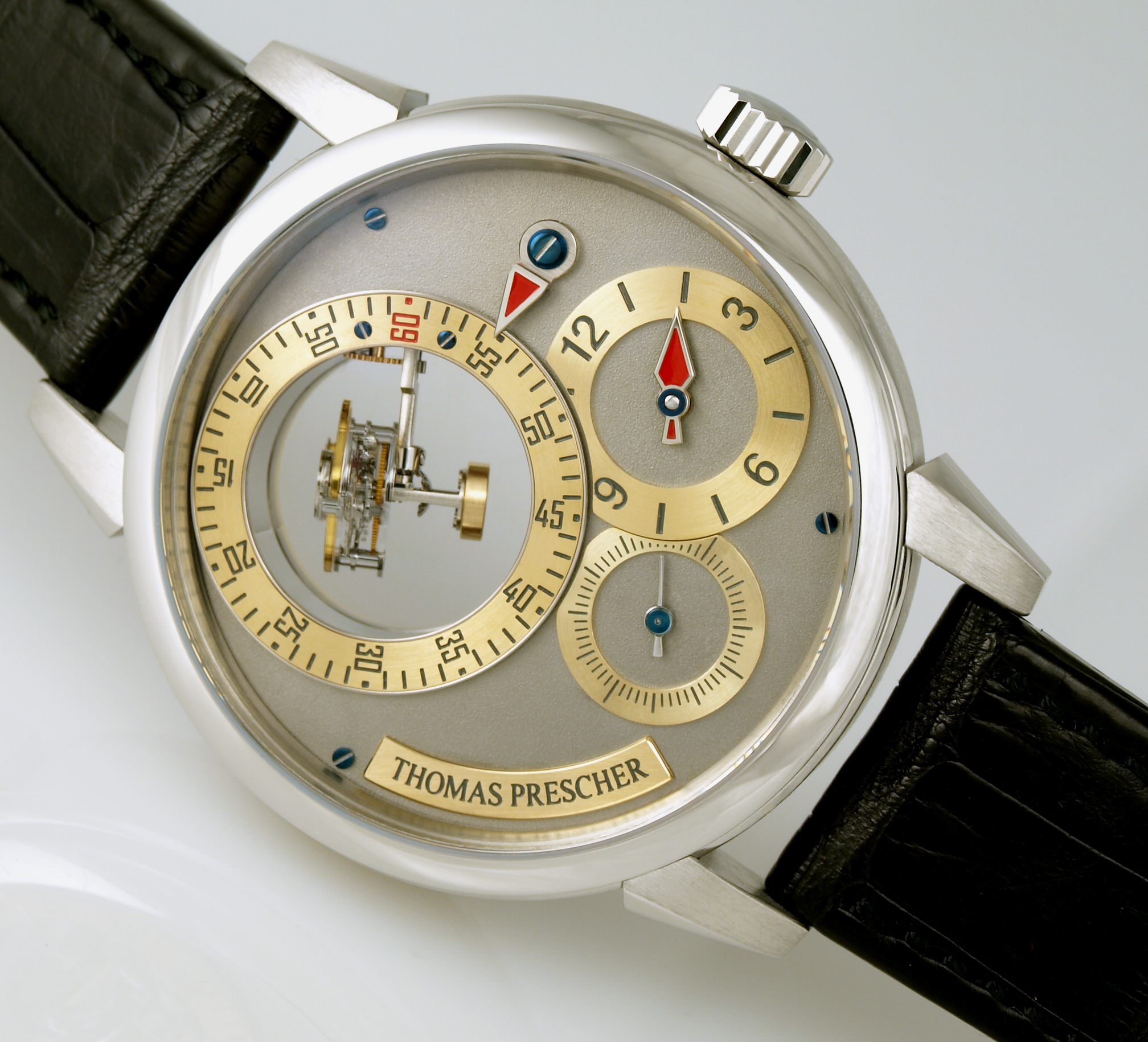 Triple Axis Tourbillon wristwatch of Thomas Prescher. Turning 1. Axis: 1/min; 2. Axis: 1/min und 3. Axis 1/h. Sportive design